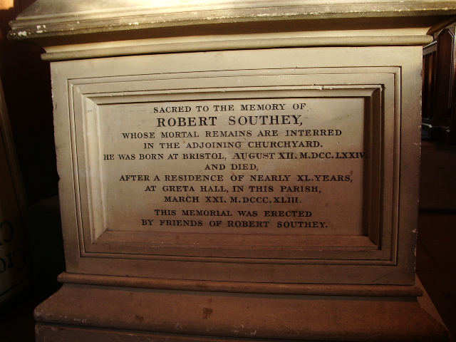 St Kentigern's Parish Church, Crosthwaite, Keswick, Memorial to Robert Southey